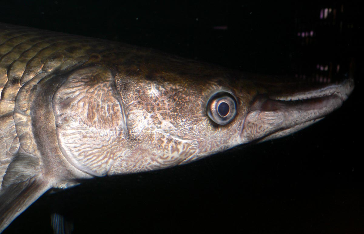 Photo of Atractosteus spatula (alligator gar) head at the Steinhart Aquarium in San Francisco